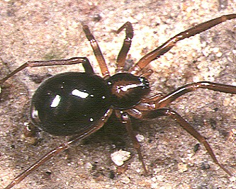 female Phrurolithus lynx from Okinawa.